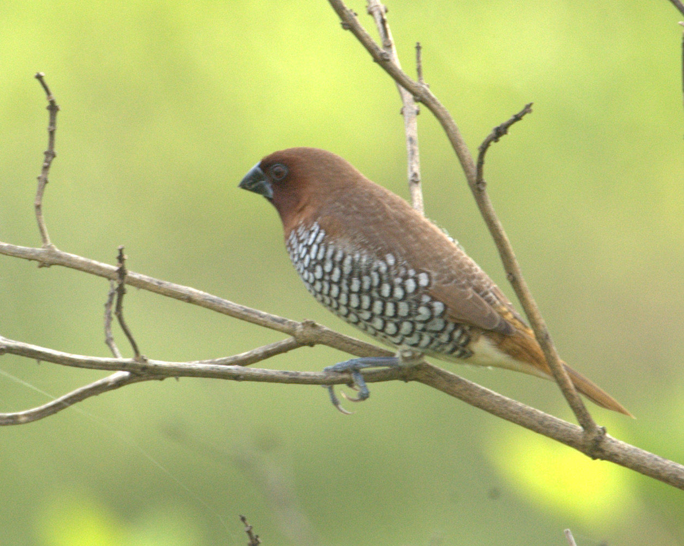 Lonchura punctulata : Scaly Breasted Munia